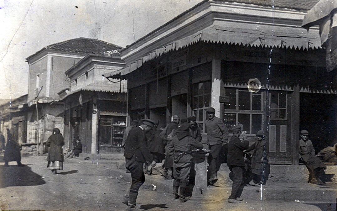 Postcard, undated ( ca.1915 ). Untitled, at the backside "Postcard from Prilep".